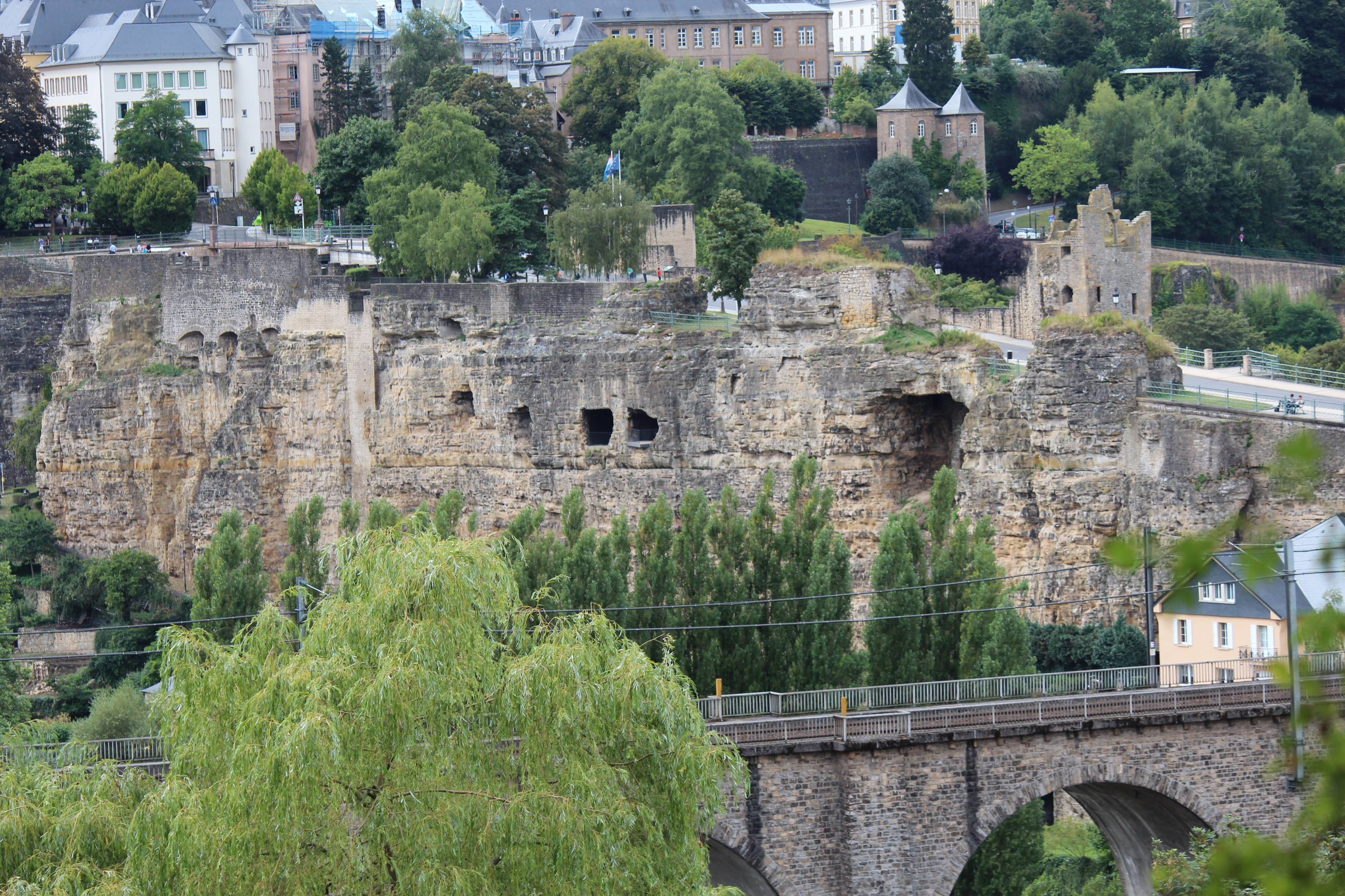 Rocher du 'Bock' in Luxembourg City, seen from rue de Trêves